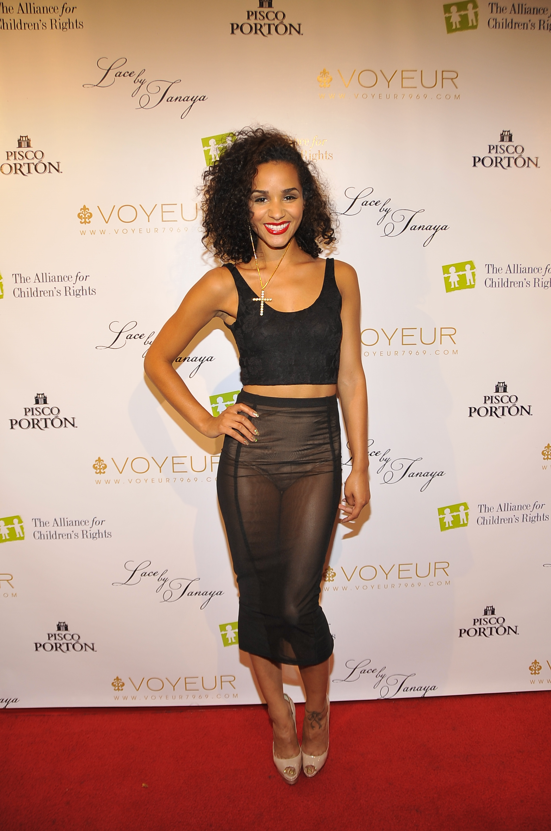 Tanaya Henry at her Lace By Tanaya Fall Presentation and Pre-VMA Charity Event August 2011